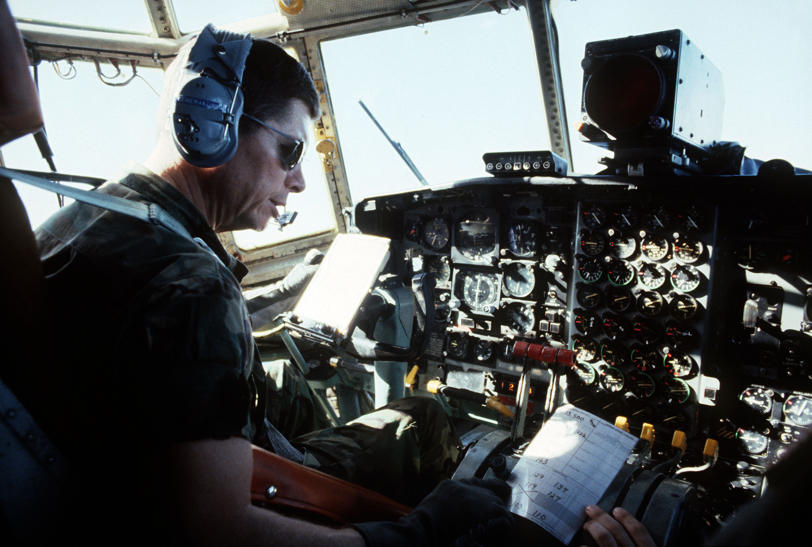 General Thomas M. Ryan Jr., commander-in-Chief of The Military Airlift Command (MAC), piloting a Lockheed C-130 Hercules aircraft while en route from Barbados to Grenada during Operation URGENT FURY.